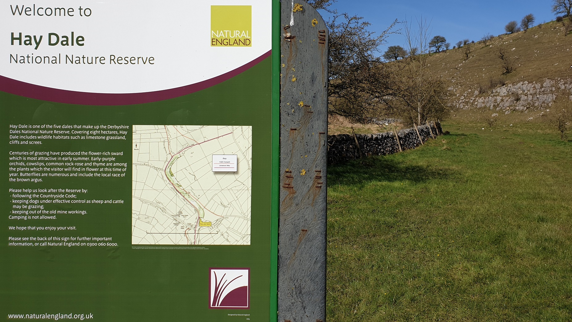 Hay Dale Nature Reserve Sign